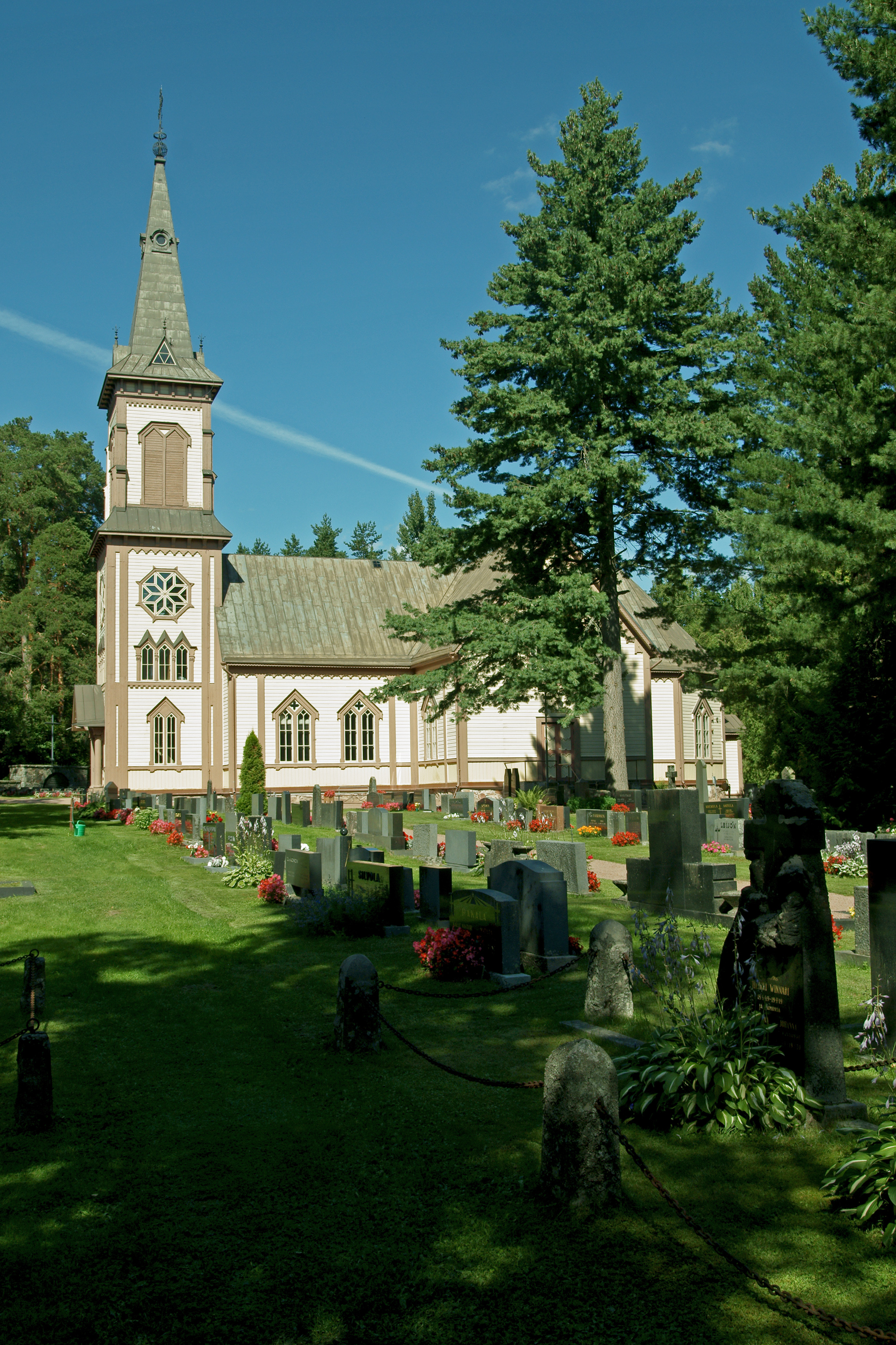 Köyliö Church in Köyliö, Finland.